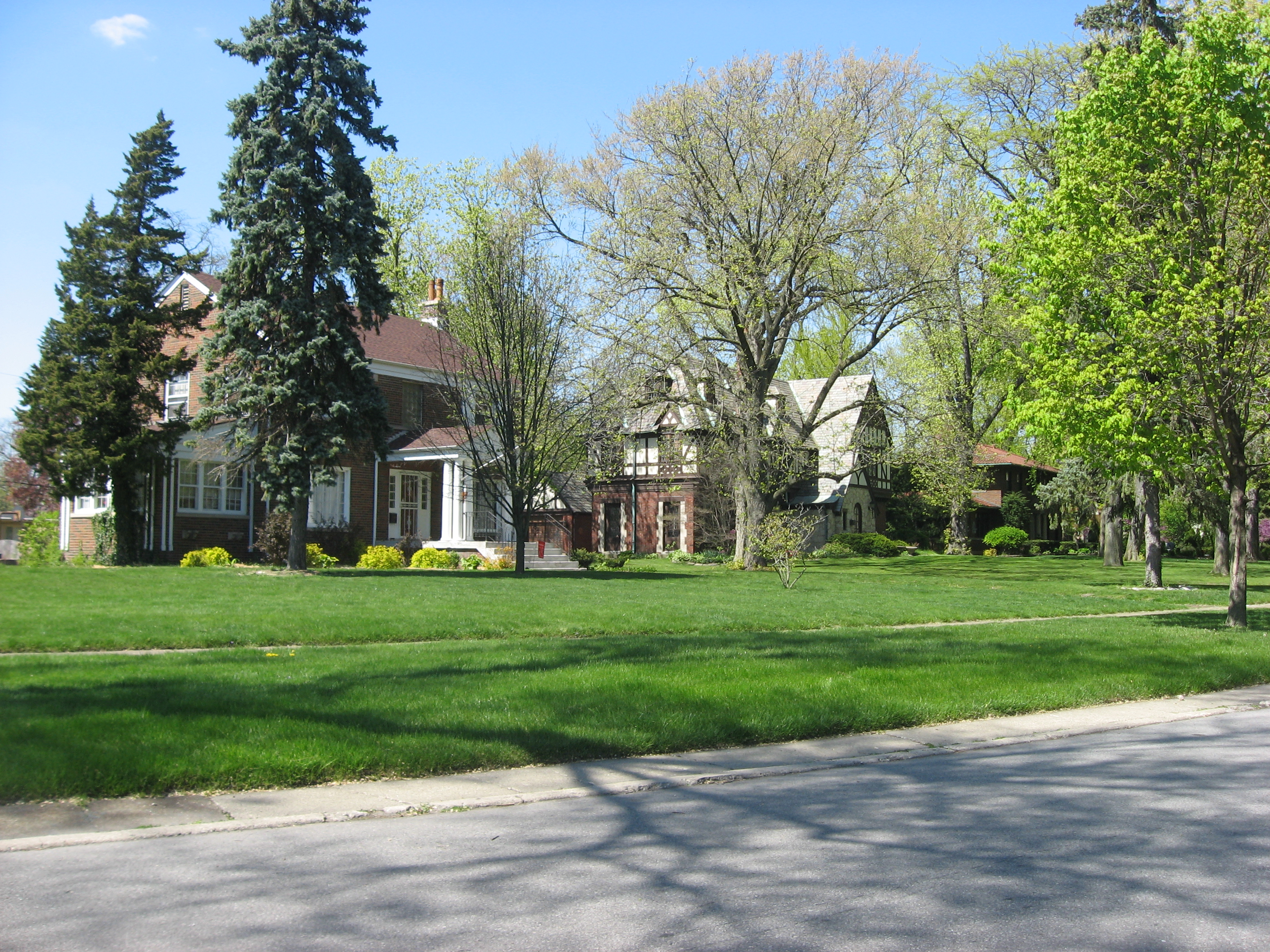 Houses at 6636 (left) and 6630 (right) Forest Avenue in Hammond, Indiana, United States. Built in 1926 and 1949 respectively, they are part of the Forest-Southview Residential Historic District, a historic district that is listed on the National Register of Historic Places.